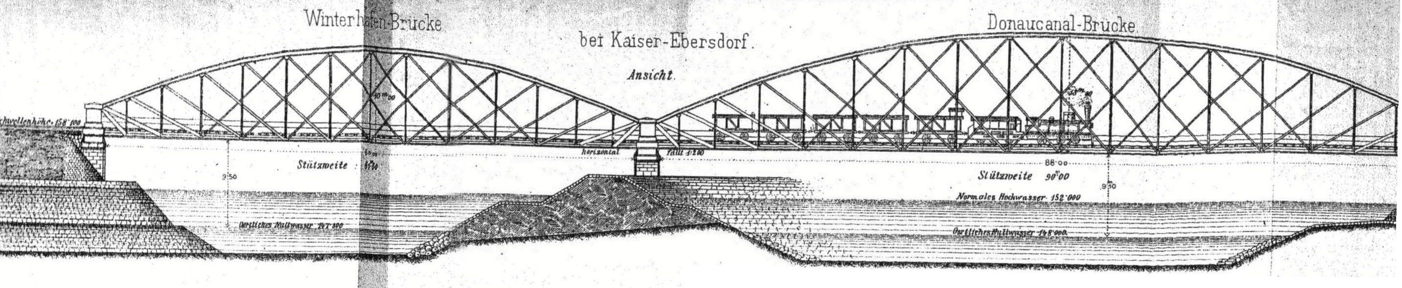 Drawing of the old Winterhafenbruecke